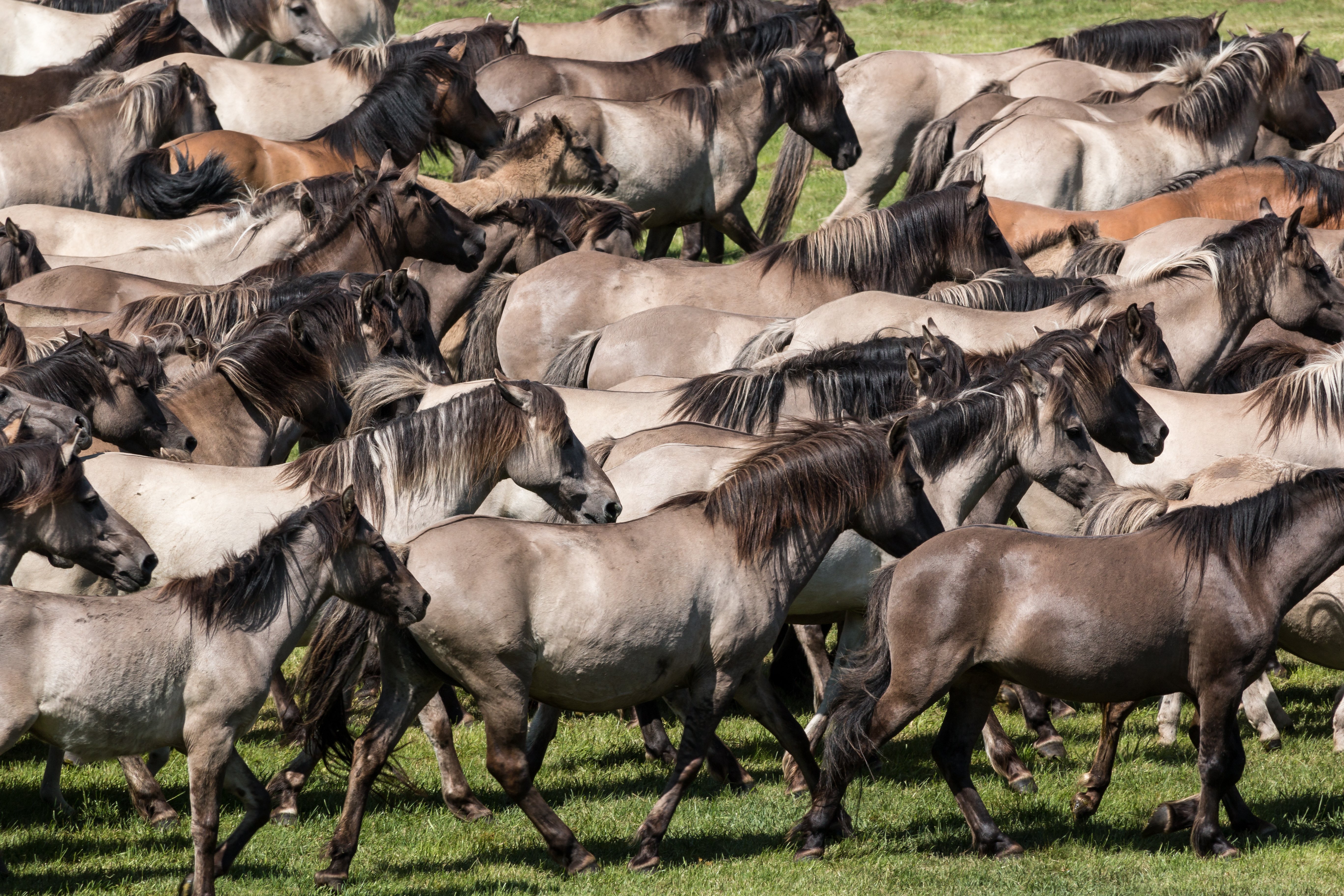 Feral Dülmen Ponies in the Wildpferdebahn, Merfelder Bruch, Dülmen, North Rhine-Westphalia, Germany; Wildpferdefang 2014